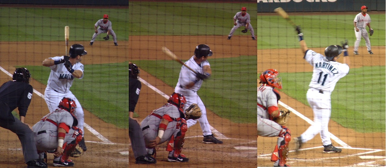 Edgar Martínez at bat. This sequence of the pictures is edited with Photostudio for Macintosh and three of them had been taken by the uploader on Sep 15, 2004 at Safeco Field in Seattle .